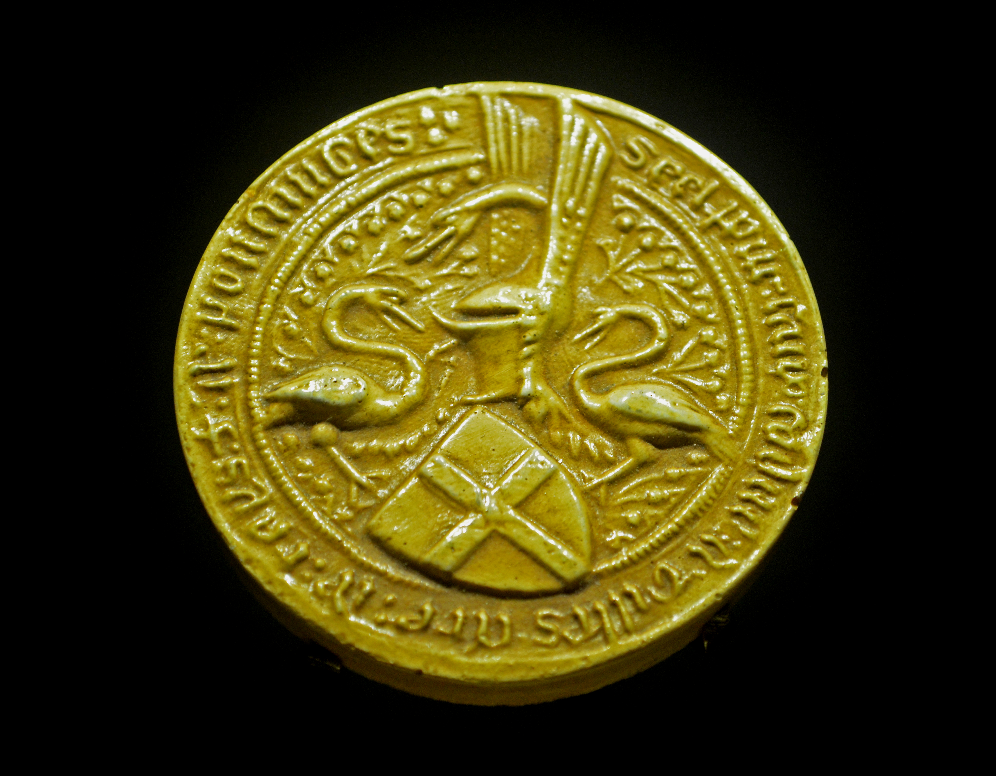 Seal of Gilles de Rais, ca 1429. Exhibited in History Museum of Vendée (Les Lucs-sur-Boulogne, Vendée)